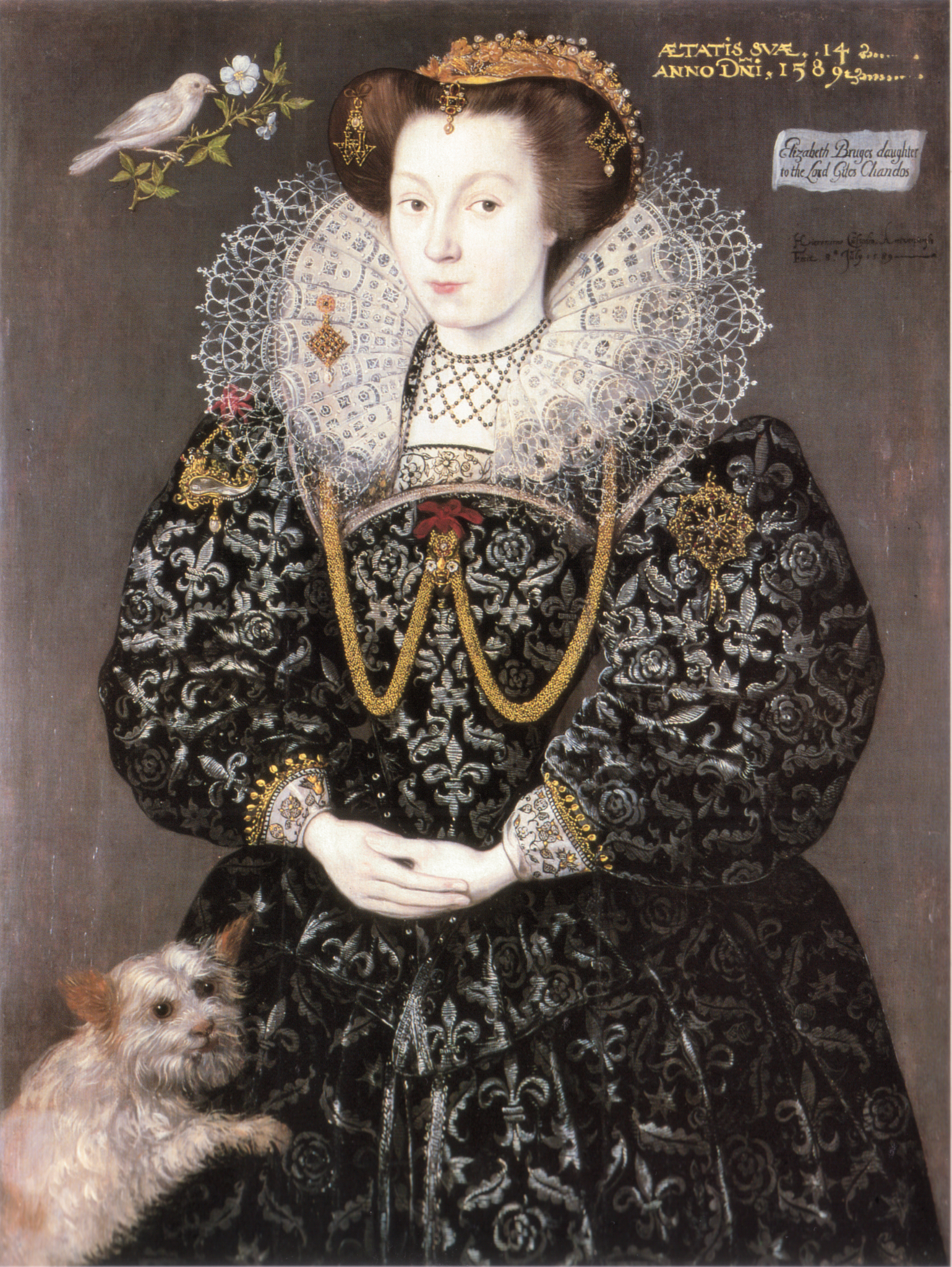 Elizabeth Brydges, later Lady Kennedy, daughter of Lord Chandos and maid of honour to Elizabeth I of England, aged 14